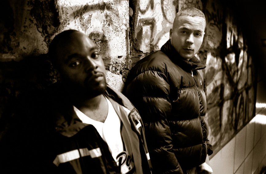 Berlin 1998